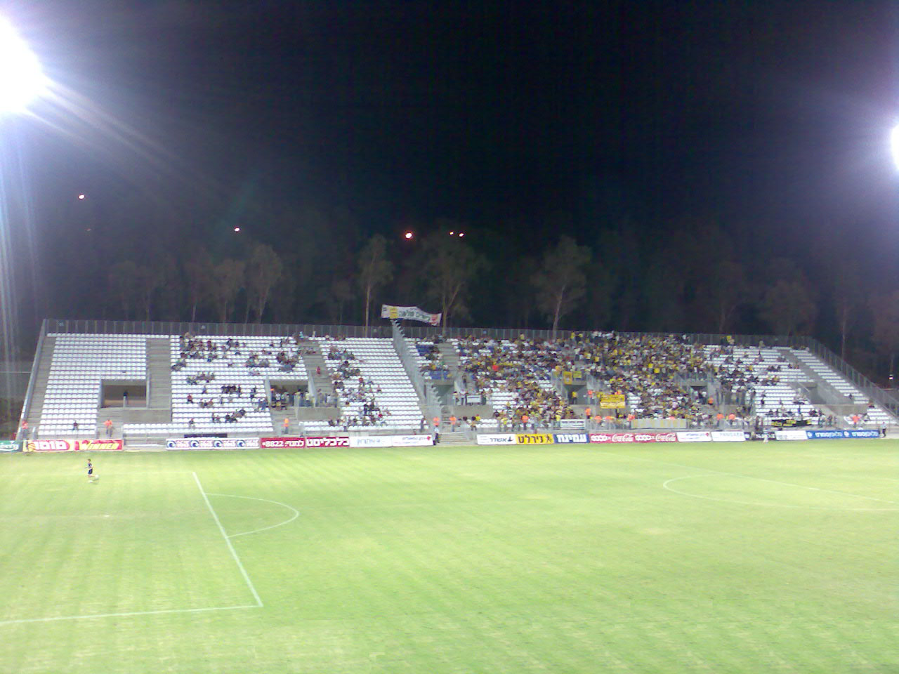 Kiryat Shmona Municipal Stadium